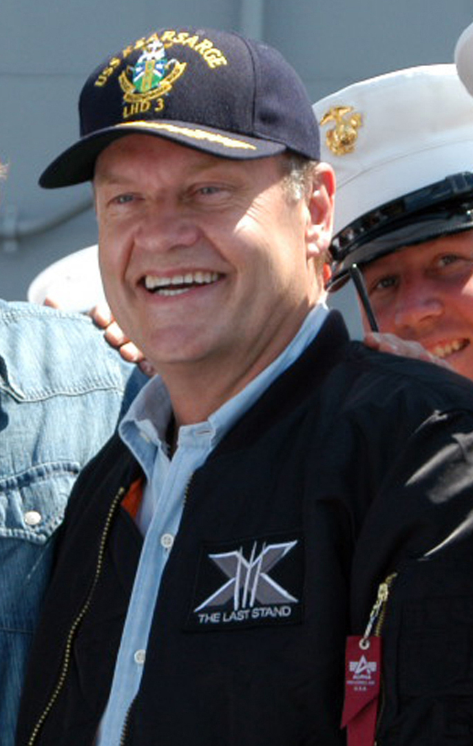 060524-N-7292N-139 New York Harbor P Actors Hugh Jackman and Kelsey Grammer, are surrounded by Sailors on the flight deck aboard the amphibious assault ship USS Kearsarge (LHD 3), during opening day for Fleet week New York City 2006. Jackman plays Logan, AKA "Wolverine," and Grammer plays Dr. Hank McCoy, AKA RBeast,S in the upcoming 20th Century Fox action, sci-fi film "X-Men: The Last Stand." The actors gave the crew of Kearsarge a special sneak preview of the film before its worldwide release date of May 26, 2006. Fleet Week has been sponsored by New York City since 1984 in celebration of the United States sea service. The annual event also provides an opportunity for citizens of New York City and the surrounding Tri-State area to meet Sailors, and Marines, as well as witness first hand the latest capabilities of todayUs Navy and Marine Corps team. Fleet week includes dozens of military demonstrations and displays, including public tours of many of the participating ships.